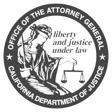 Variant of the seal of the Office of the Attorney General